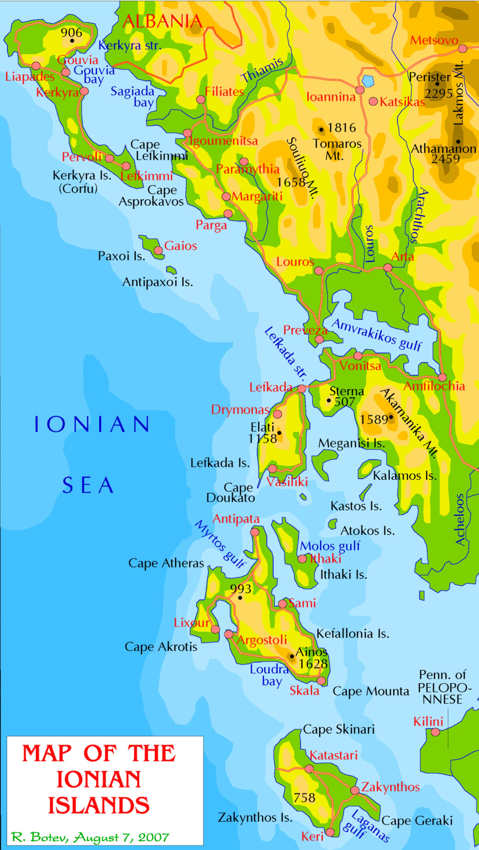 Map of Ionian Islands in English